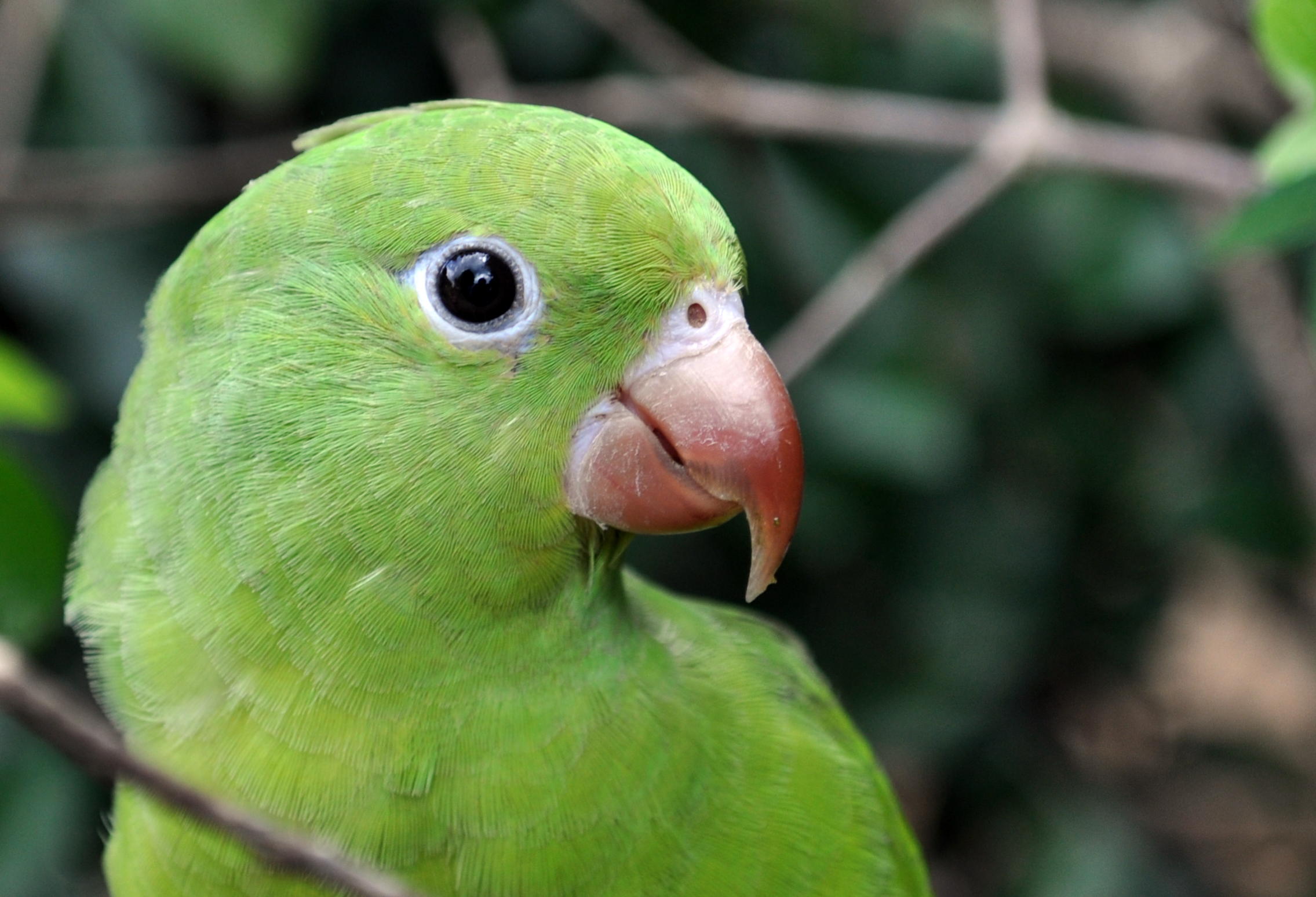 Plain Parakeet in captivity.